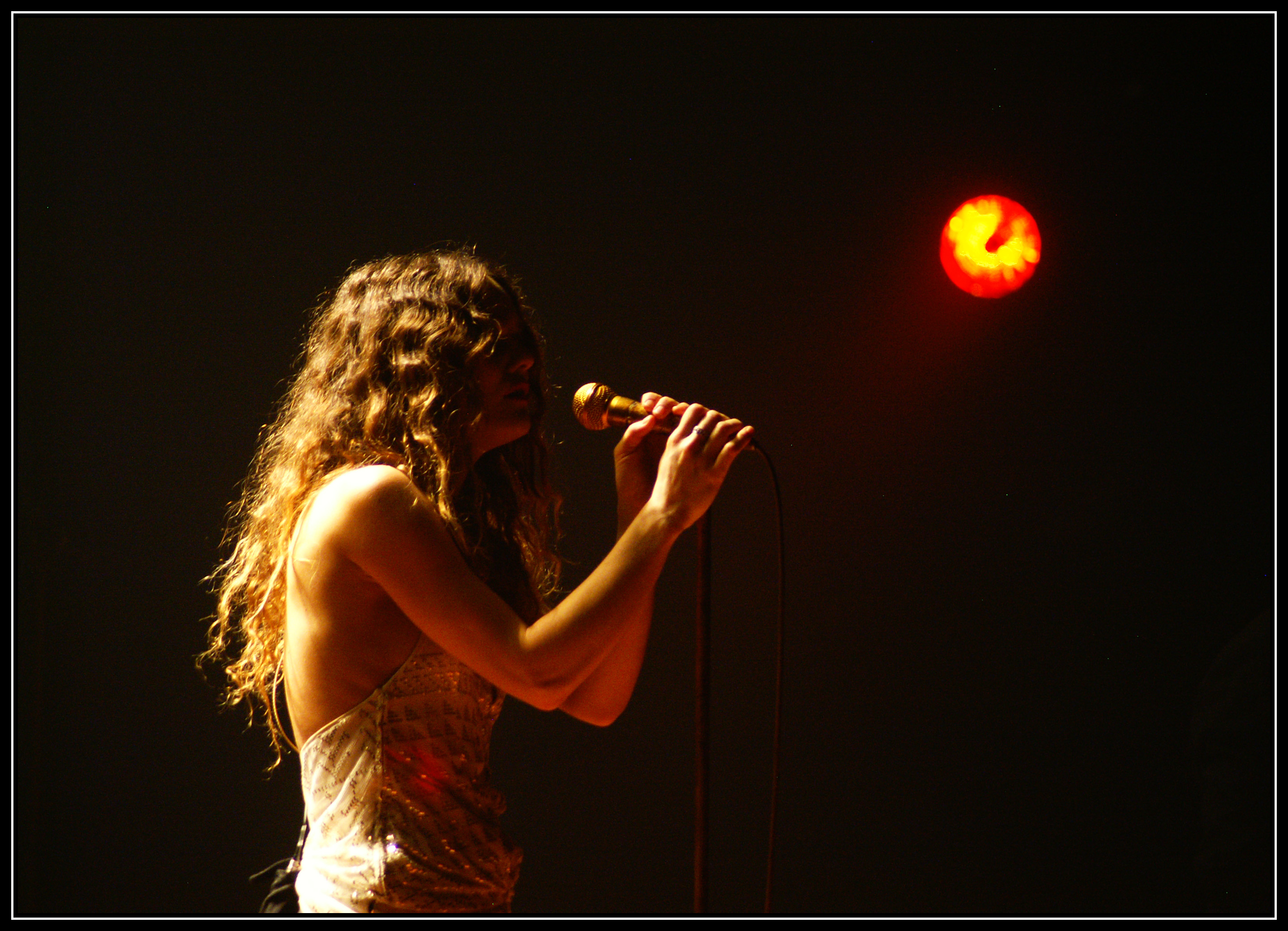 Vanessa Paradis live at Châteauroux (France).Vanessa Paradis @ Tarmac (Châteauroux)